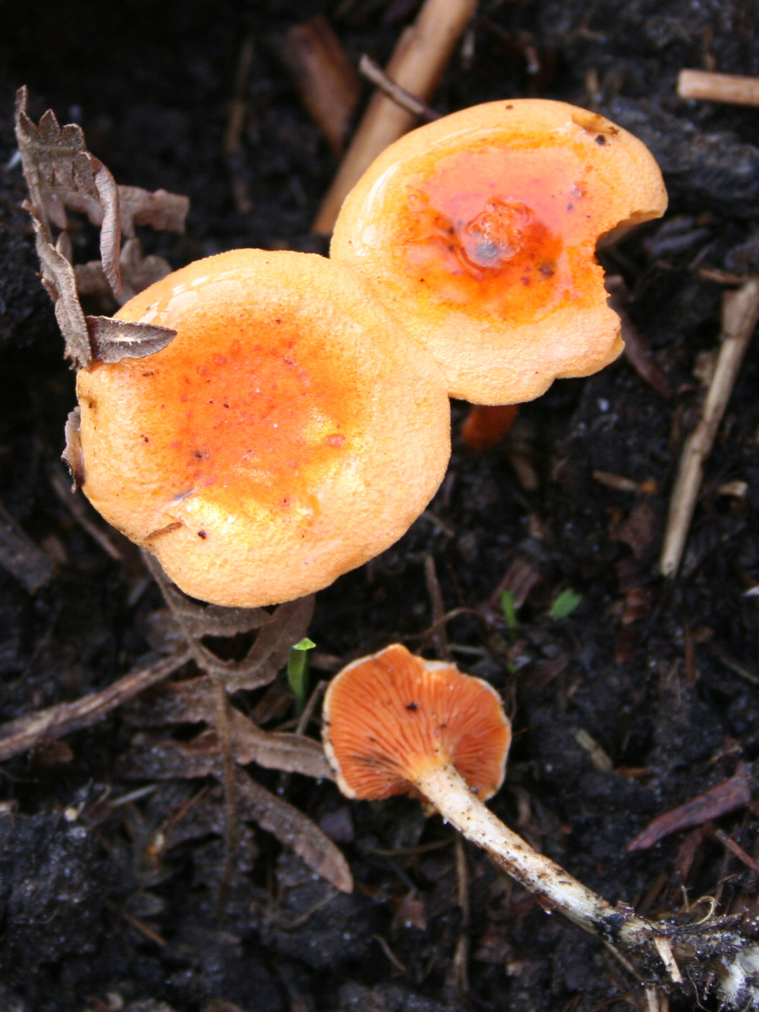 Hygrophoropsis aurantiaca (False Chanterelle) in a French wood.